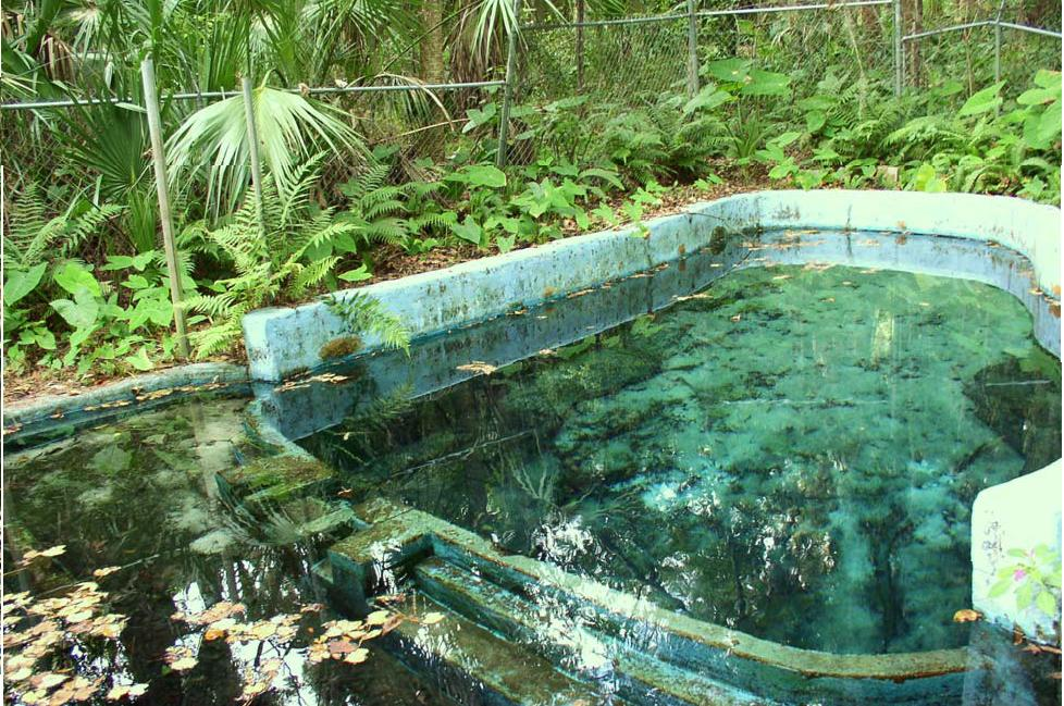 Photograph of Glen Spring in Florida